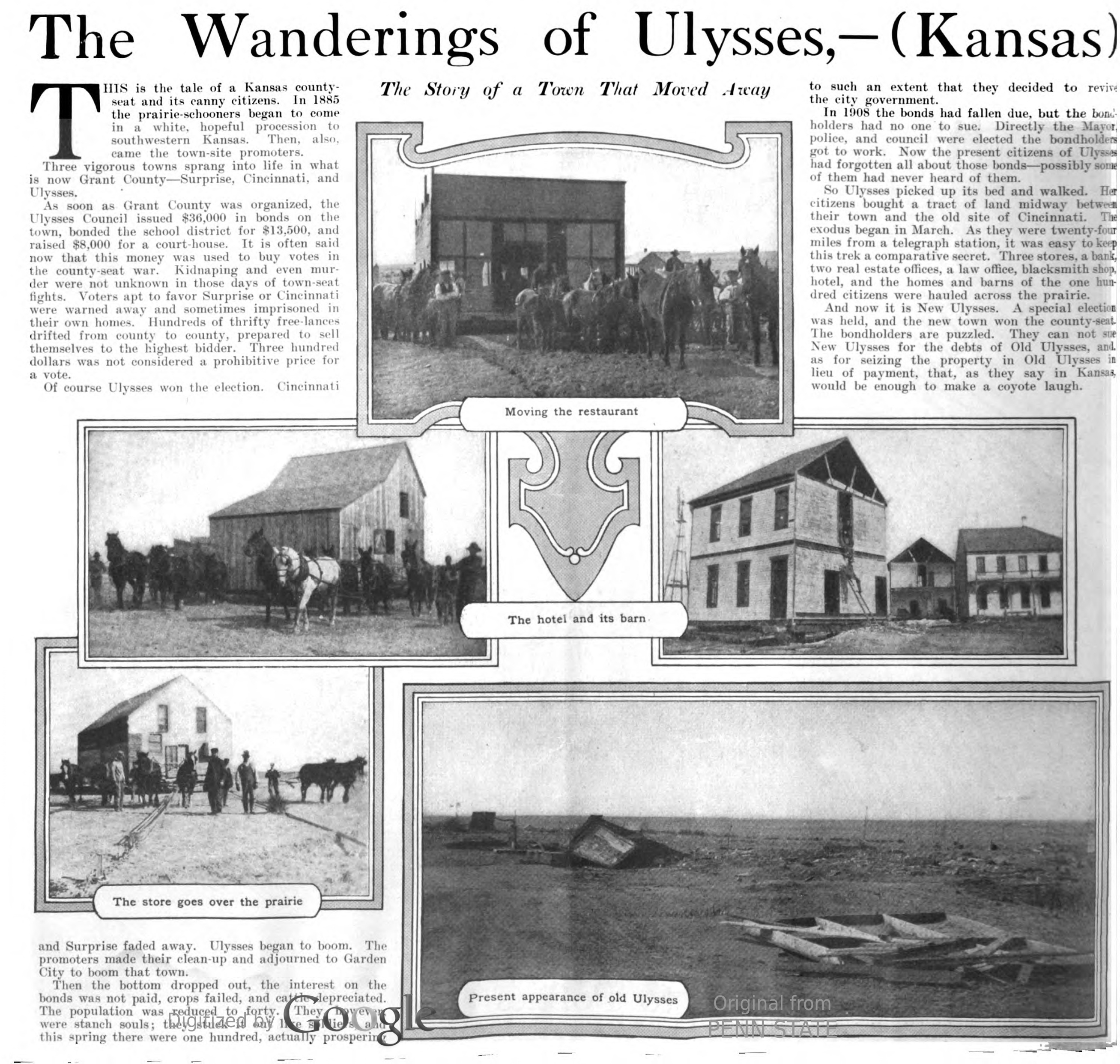 digitized article on the moving of Ulysses, Kansas. from: Collier's Magazine 1909, Issue July 24, p 16. Magazine owned by the Pennsylvania State University, digitized by Google inc.